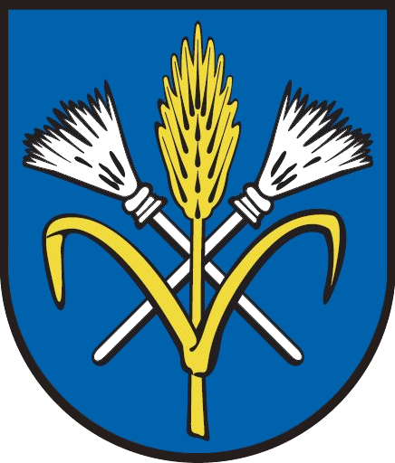 Coat of Arms of Dielmissen